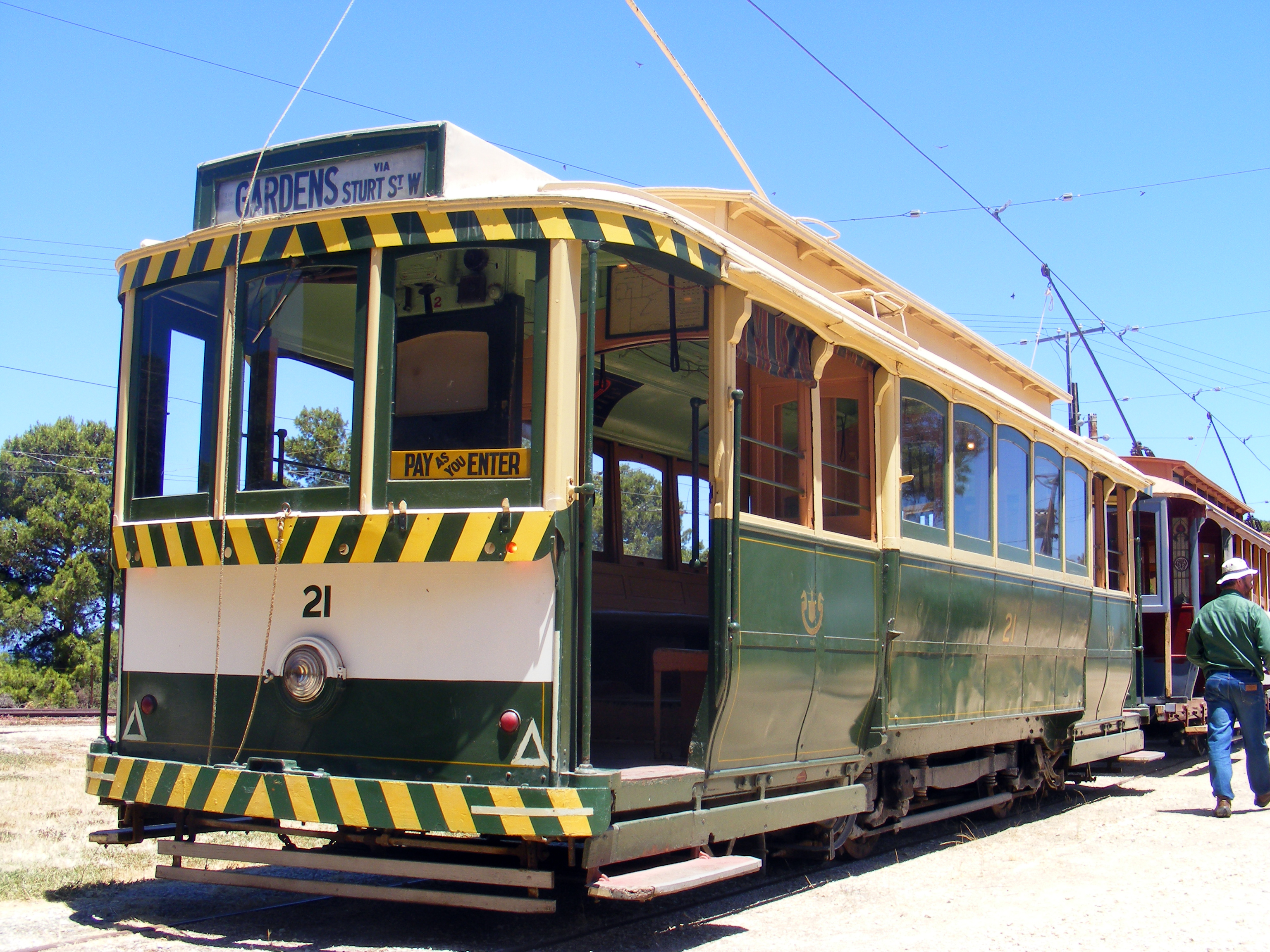 Ballarat tram 21 (ex Adelaide A type tram 10) as seen preserved in it's final condition at the St Kilda Tramway Museum, 30/11/2008.